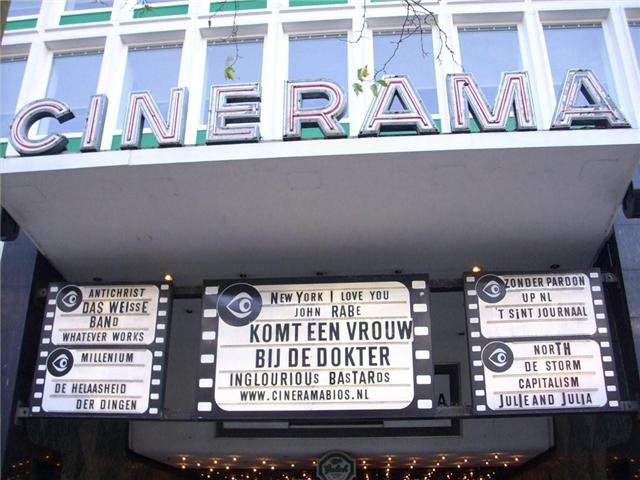 The program of the Dutch cinema Cinerama (in Rotterdam). The size of Komt een vrouw bij de dokters letters imply the popularity of its film in the Netherlands.